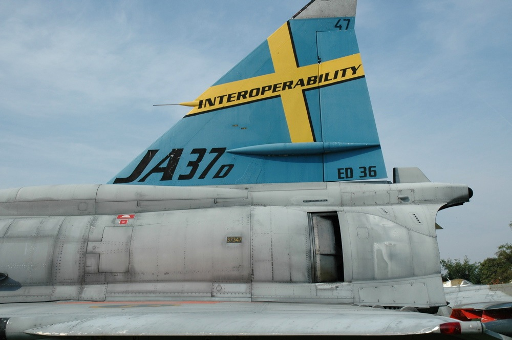 Tail of the Saab JA 37 Viggen fighter (displayed at the Museum of Hungarian Air Force, Szolnok)